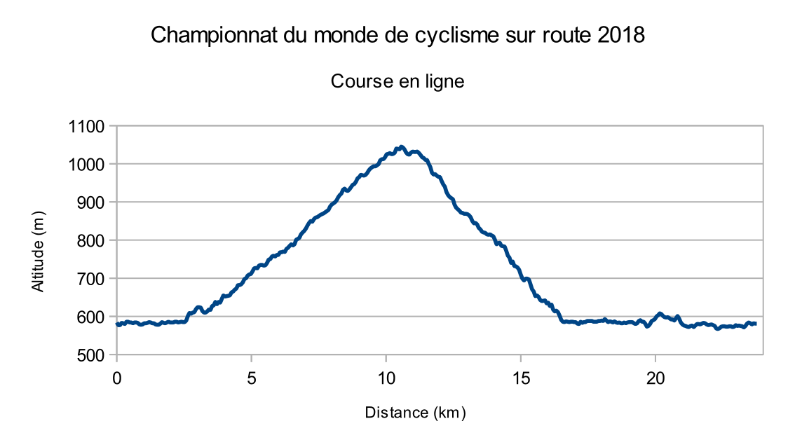 Profil of the short round of the women and men road race of World Championship 2018 in Innsbrück.